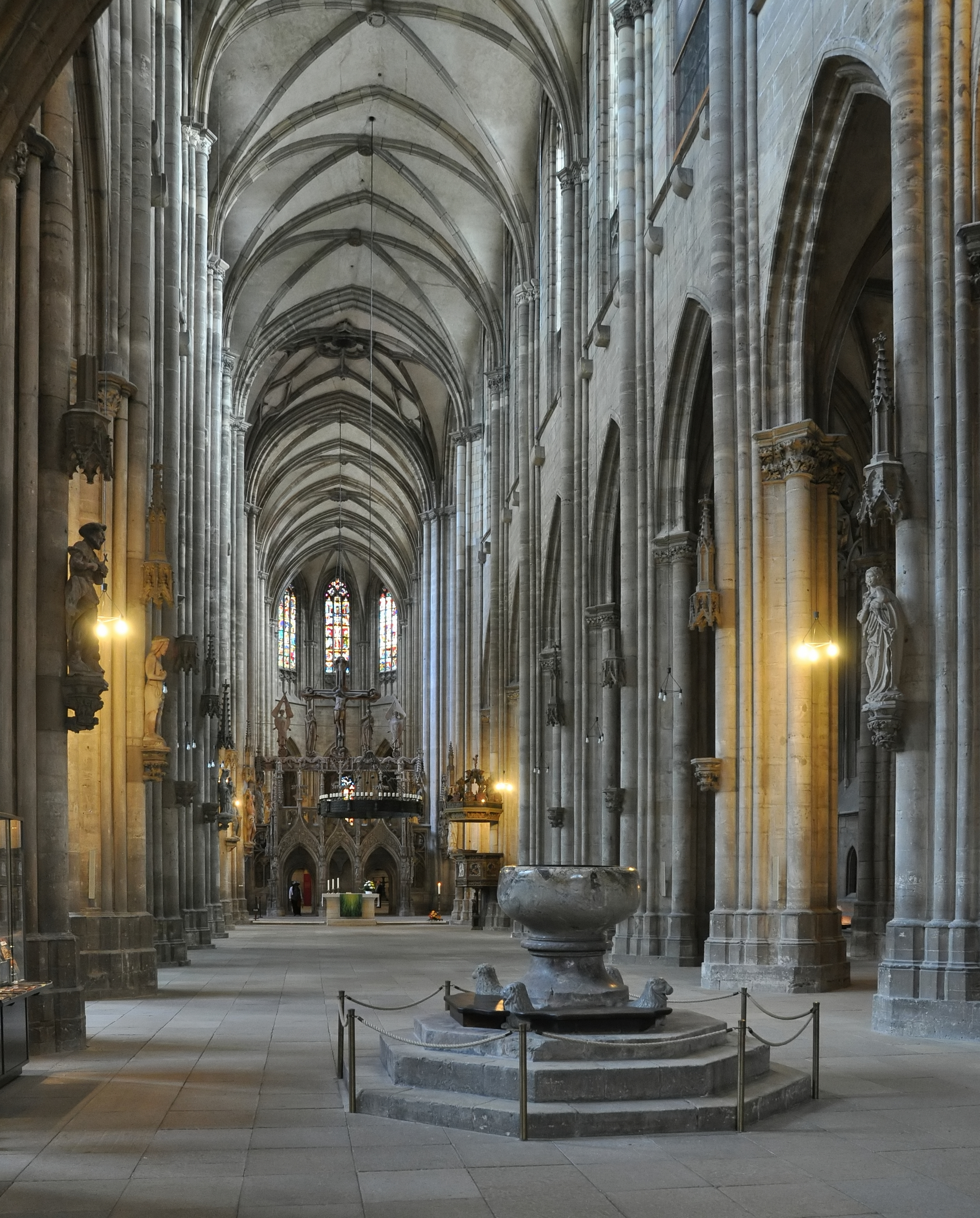 Cathedral of Halberstadt, Nave